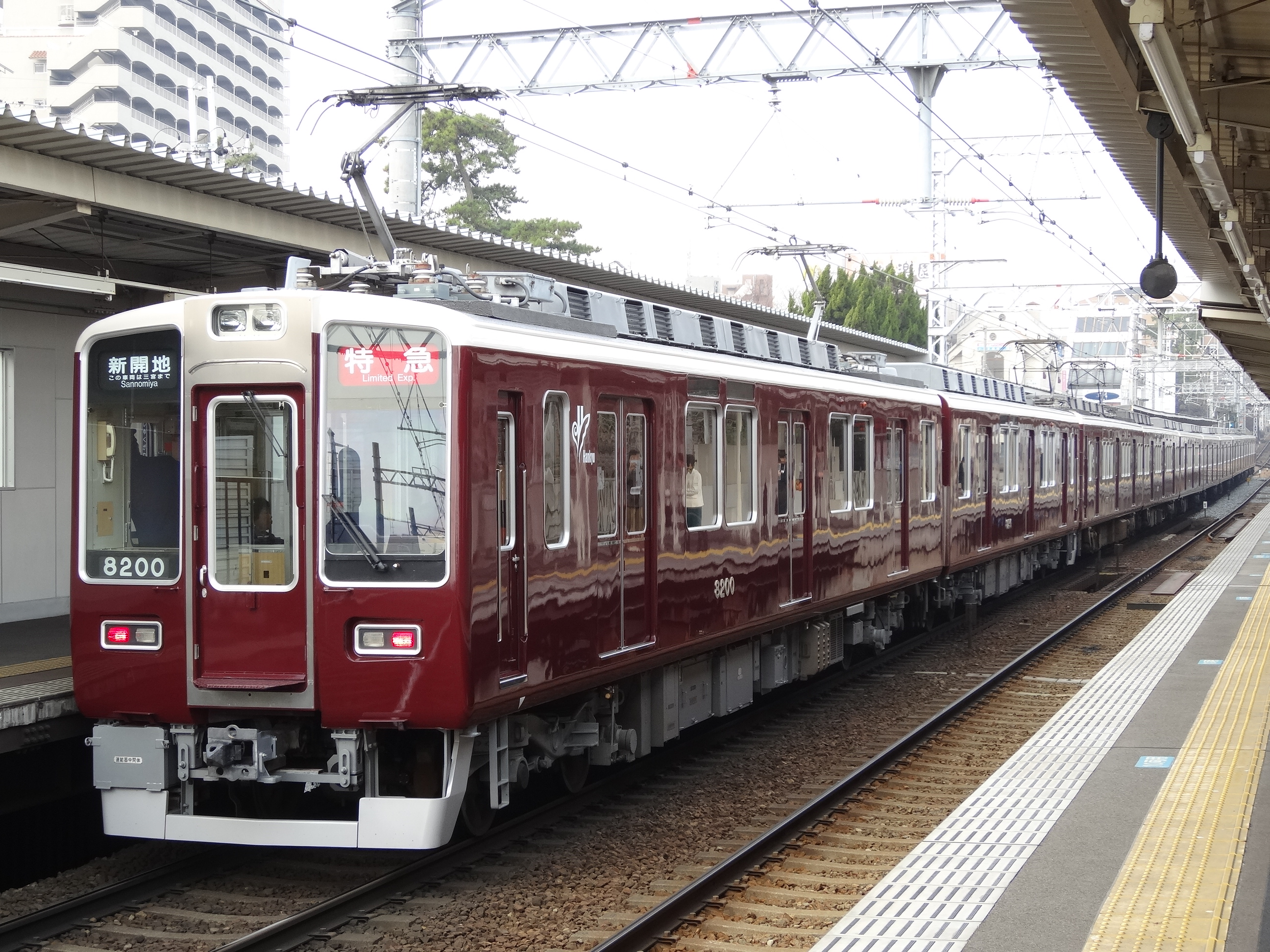 Limited Express for Shinkaichi,but this Hankyu 8200series ended at Sannomiya. at Hankyu Shukugawa Station.